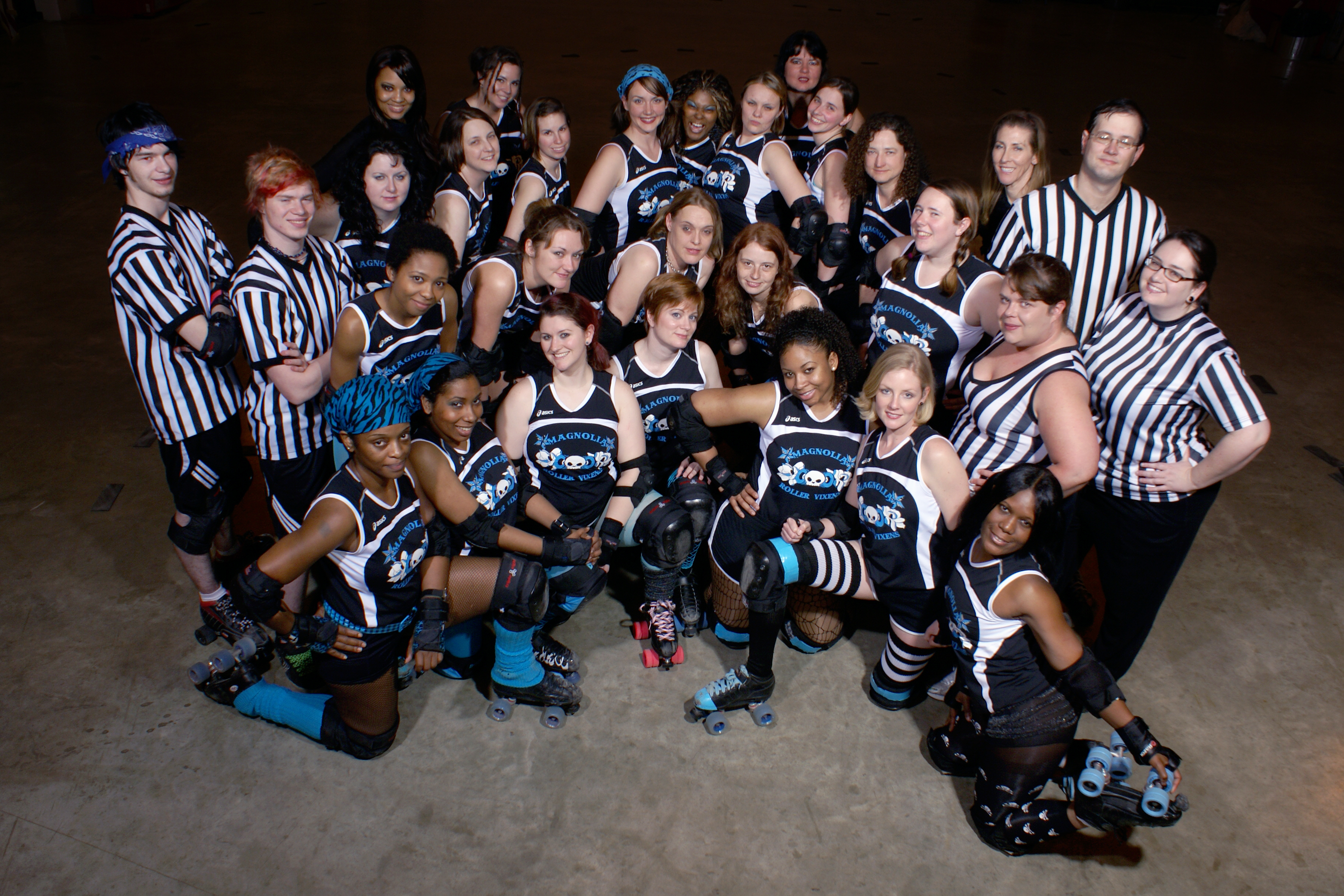 Magnolia Roller Vixens Group Photo 2010